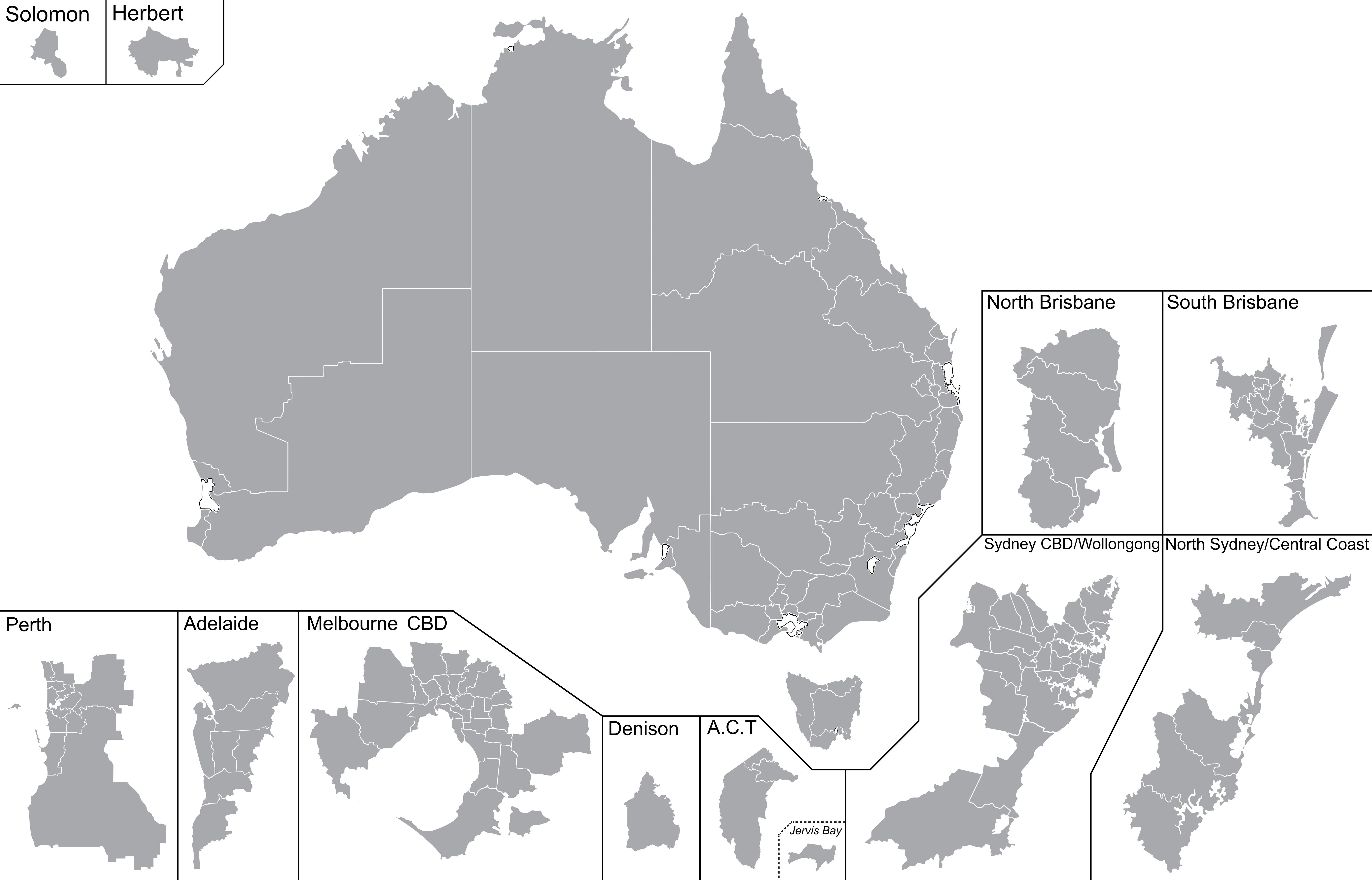 The Australian electoral map to be contested in the 2019 Federal Election following 2017/18 redistributions.